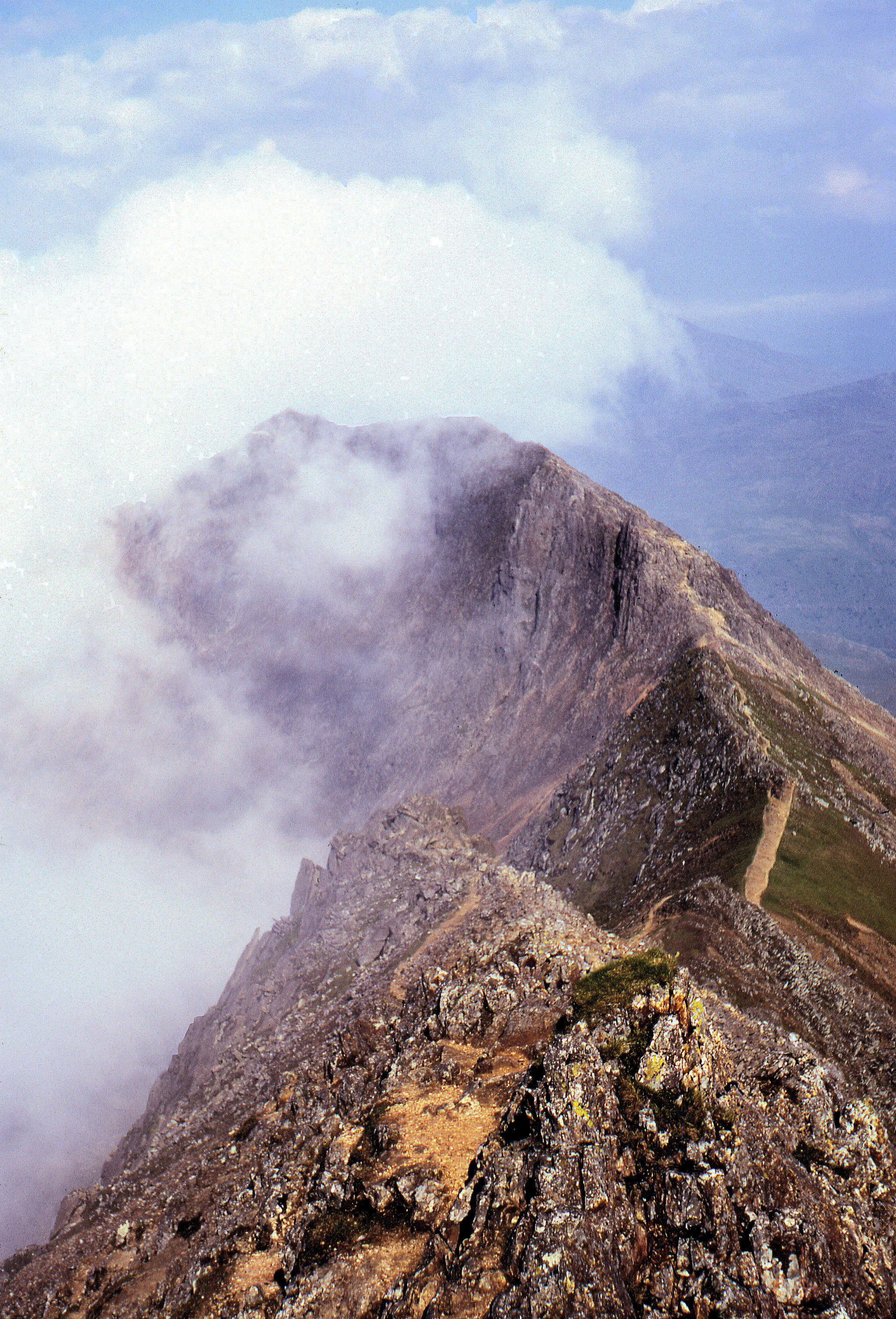 The ridge of Crib Goch, Snowdonia, North Wales.